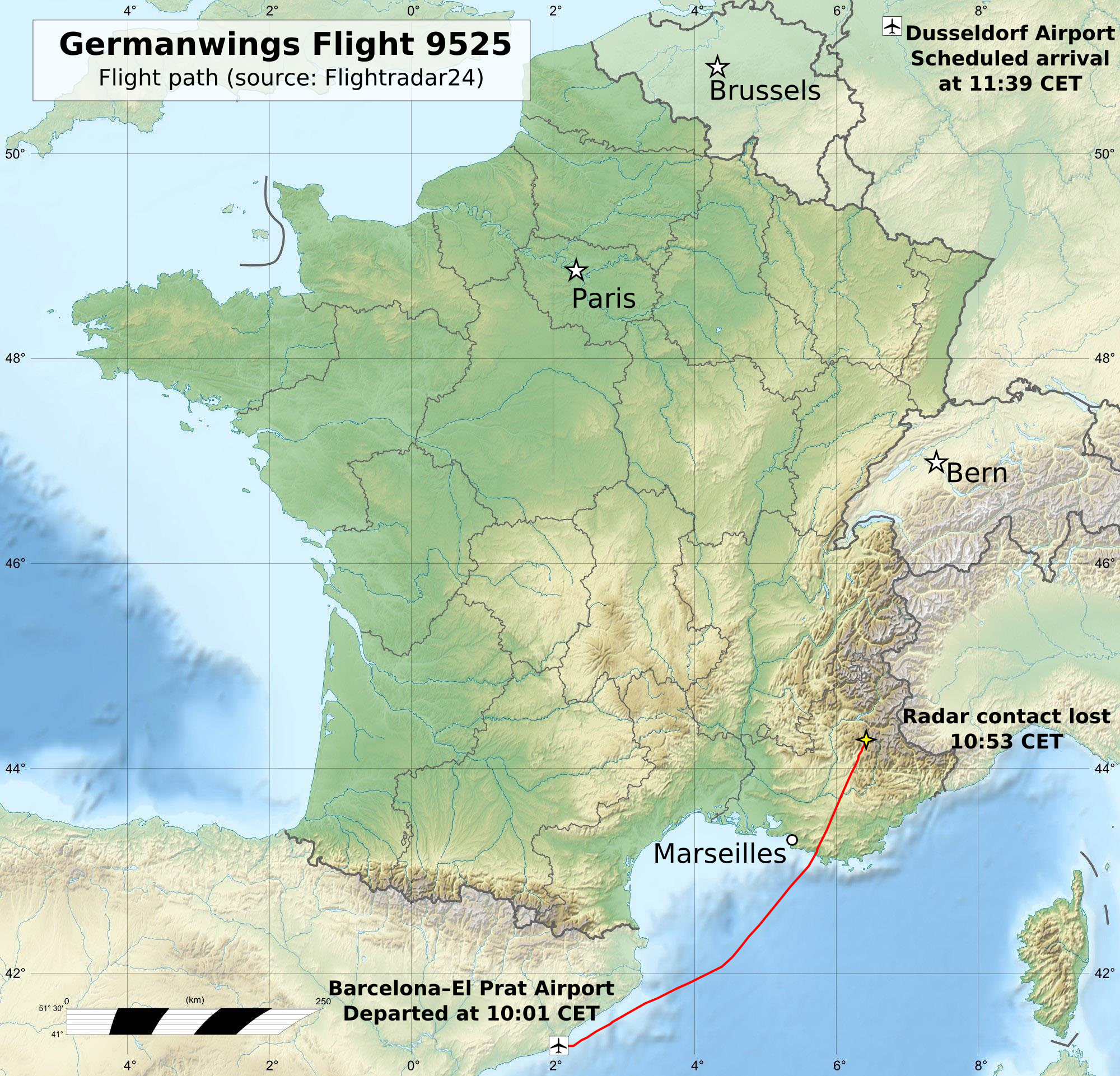 Flight path of Germanwings Flight 9525 (English).